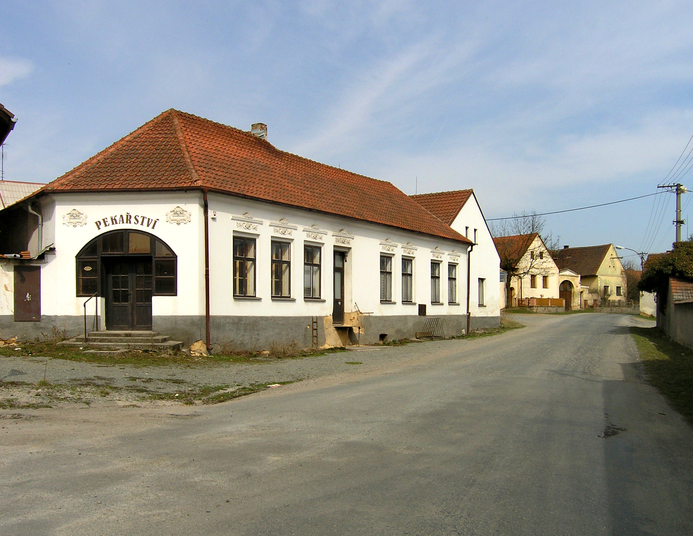 North part of Ledce village, Czech Republic